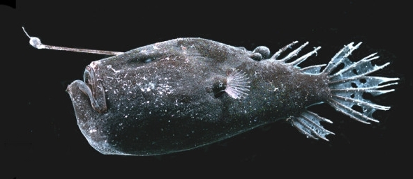 Cut-out from original shown below